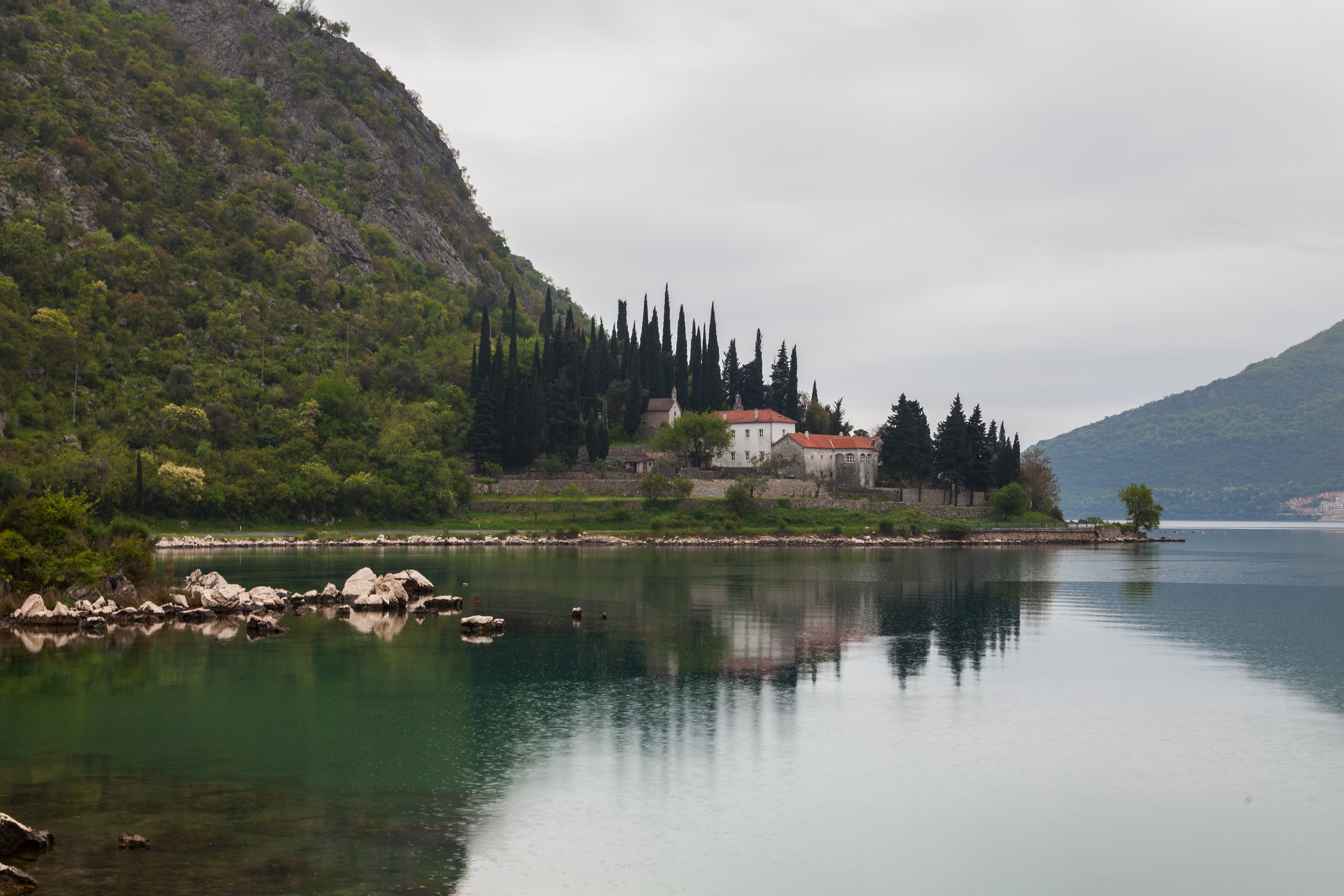 Risan, Bay of Kotor, Montenegro